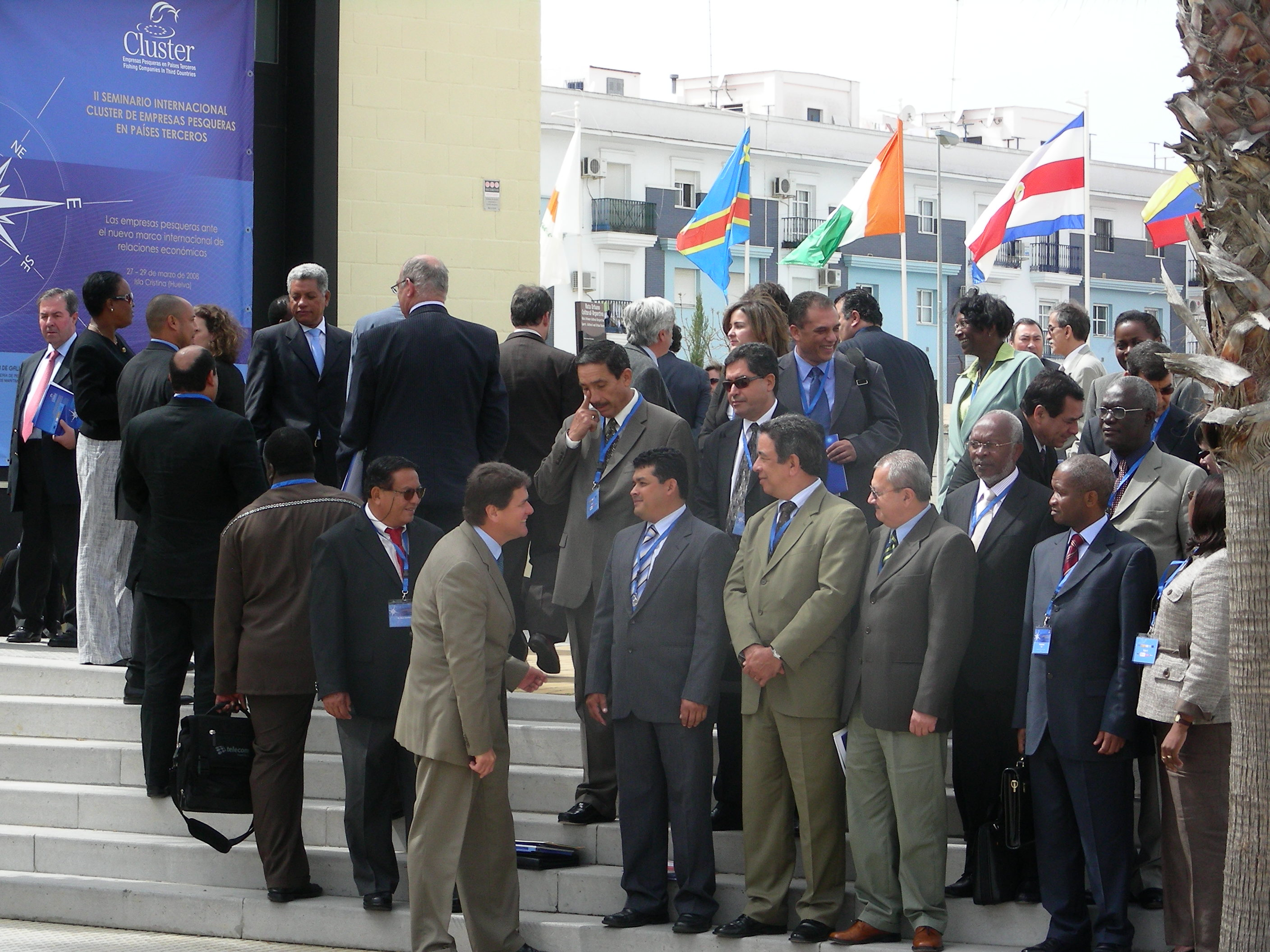 Photo of authorities in the Cluster of Fishing Enterprises at Isla Cristina